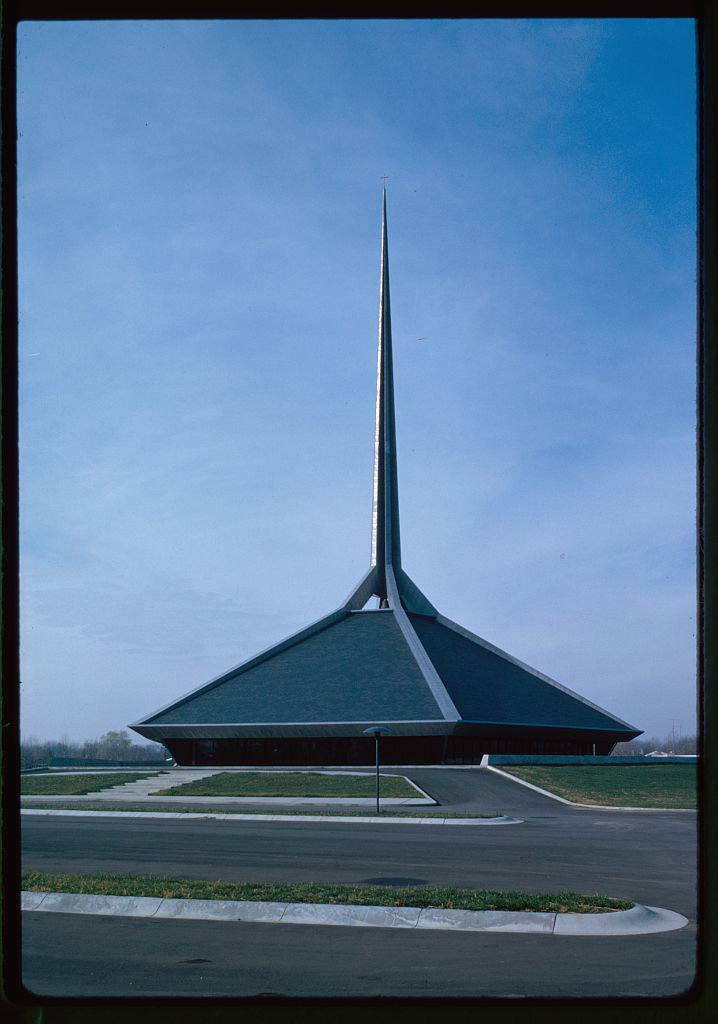 North Christian Church, Columbus, Indiana, 1959-64. Exterior Note: No known restrictions on publication. Balthazar Korab Archive (Library of Congress).